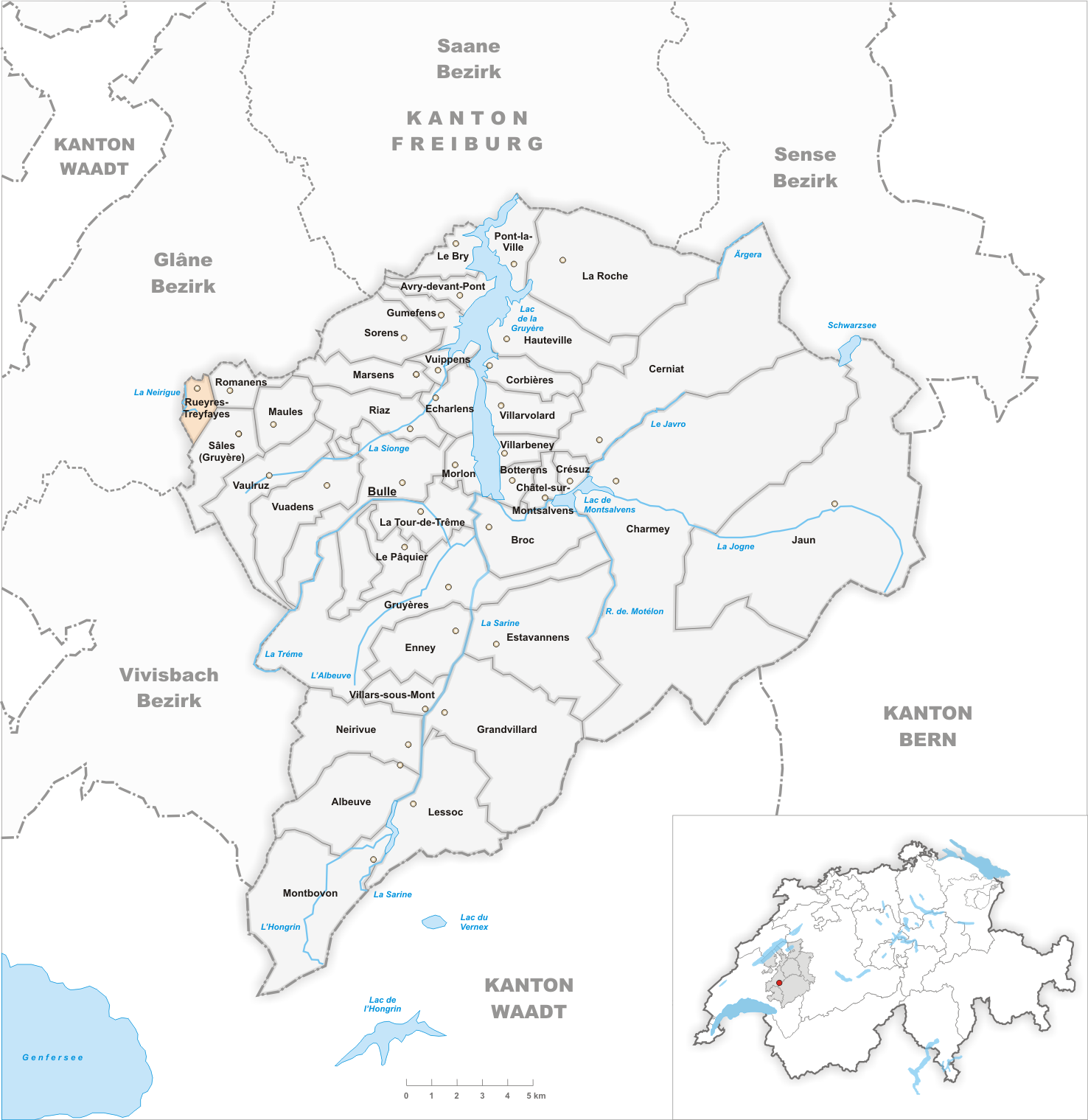 Municipality Rueyres-Treyfayes Artist: Tschubby